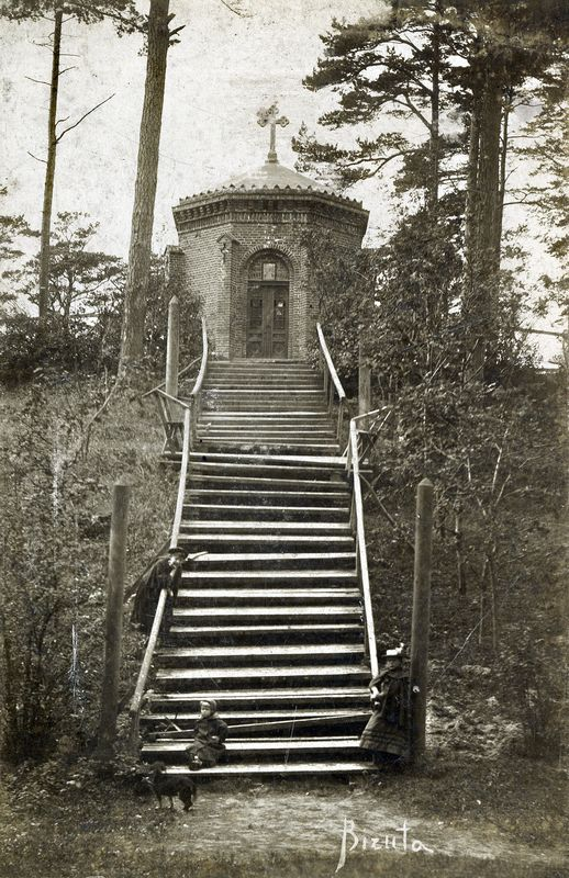 Palanga. A view of Birutes Hill from the woods